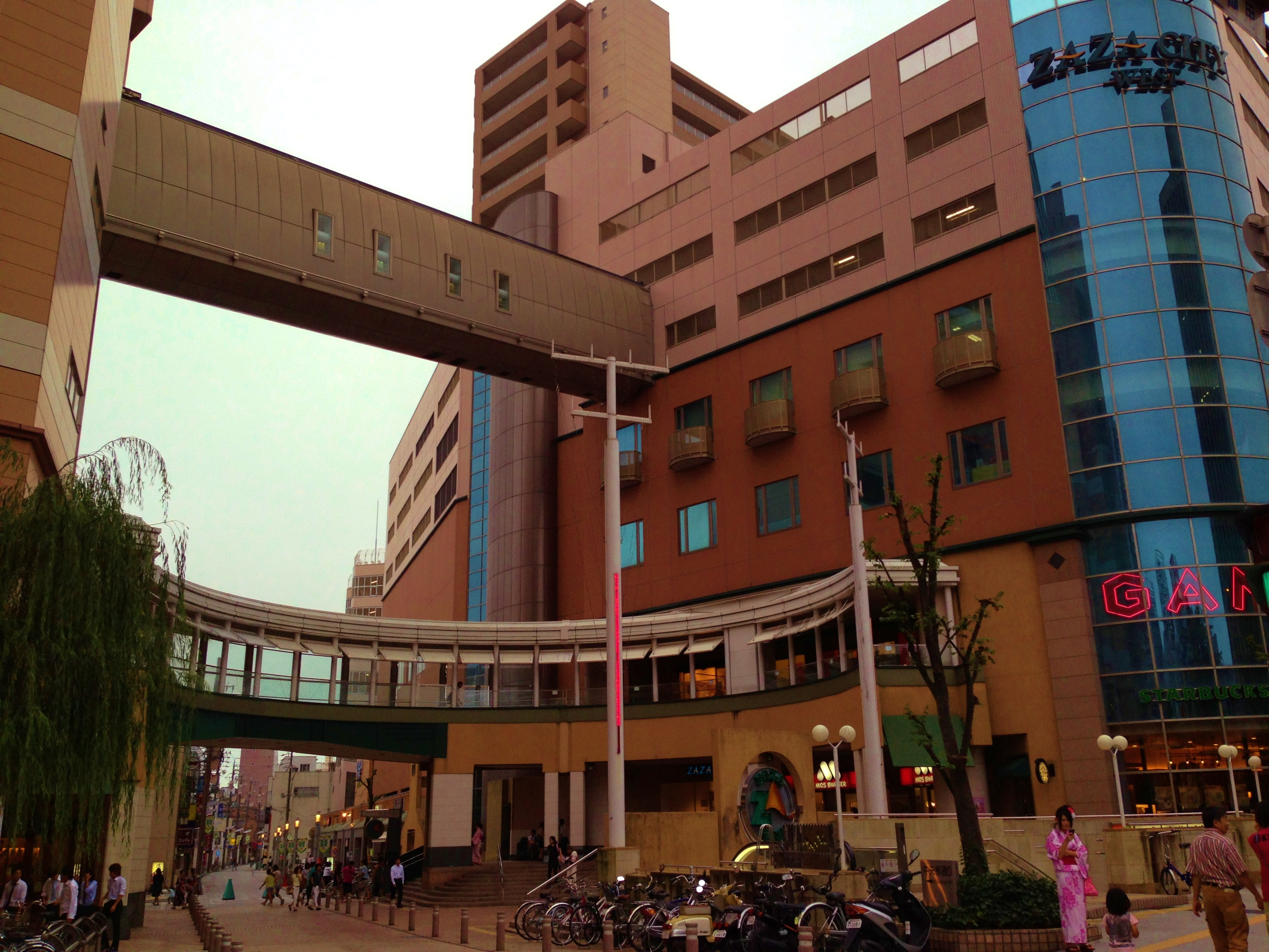 Zaza City